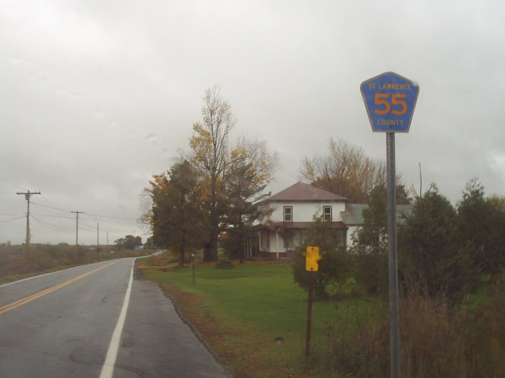 County Route 55 in St. Lawrence County, New York.